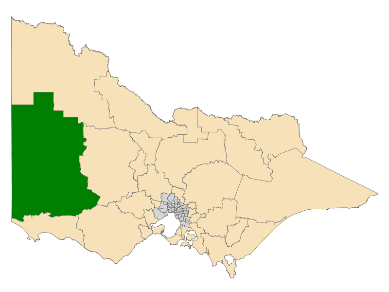 Location of the Electoral District of Lowan (dark green) in the state of Victoria, Australia. These boundaries were used for the Victorian state election on 29 November 2014.